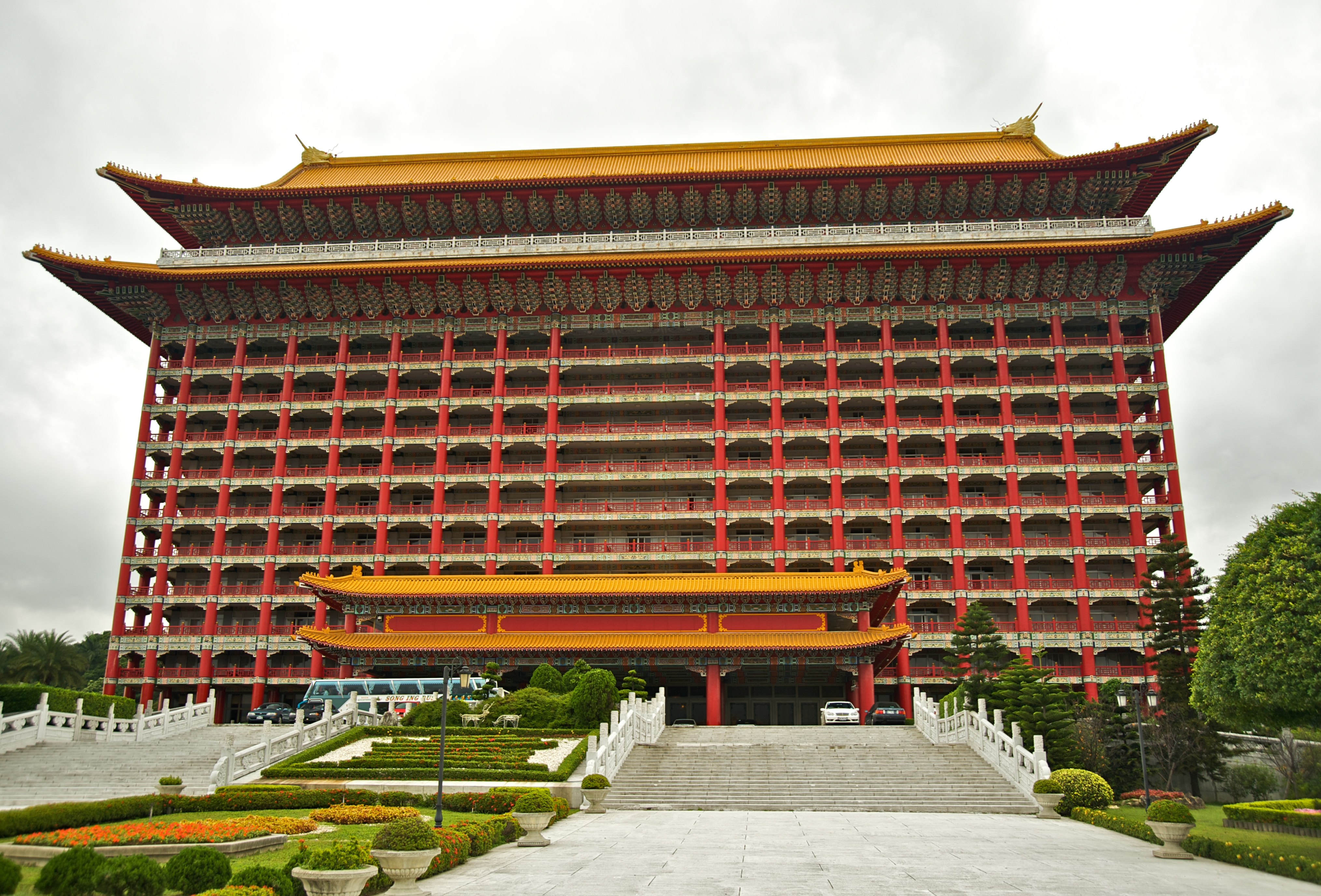 The Grand Hotel in Taipei, Taiwan Bân-lâm-gú: Tâi-uân Tâi-pak-tshī ê Înn-suann Tuā-pn̄g-tiàm.